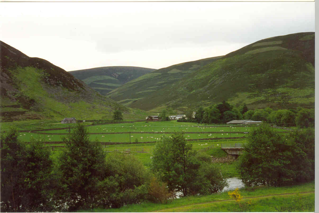 Stanhope Peebleshire